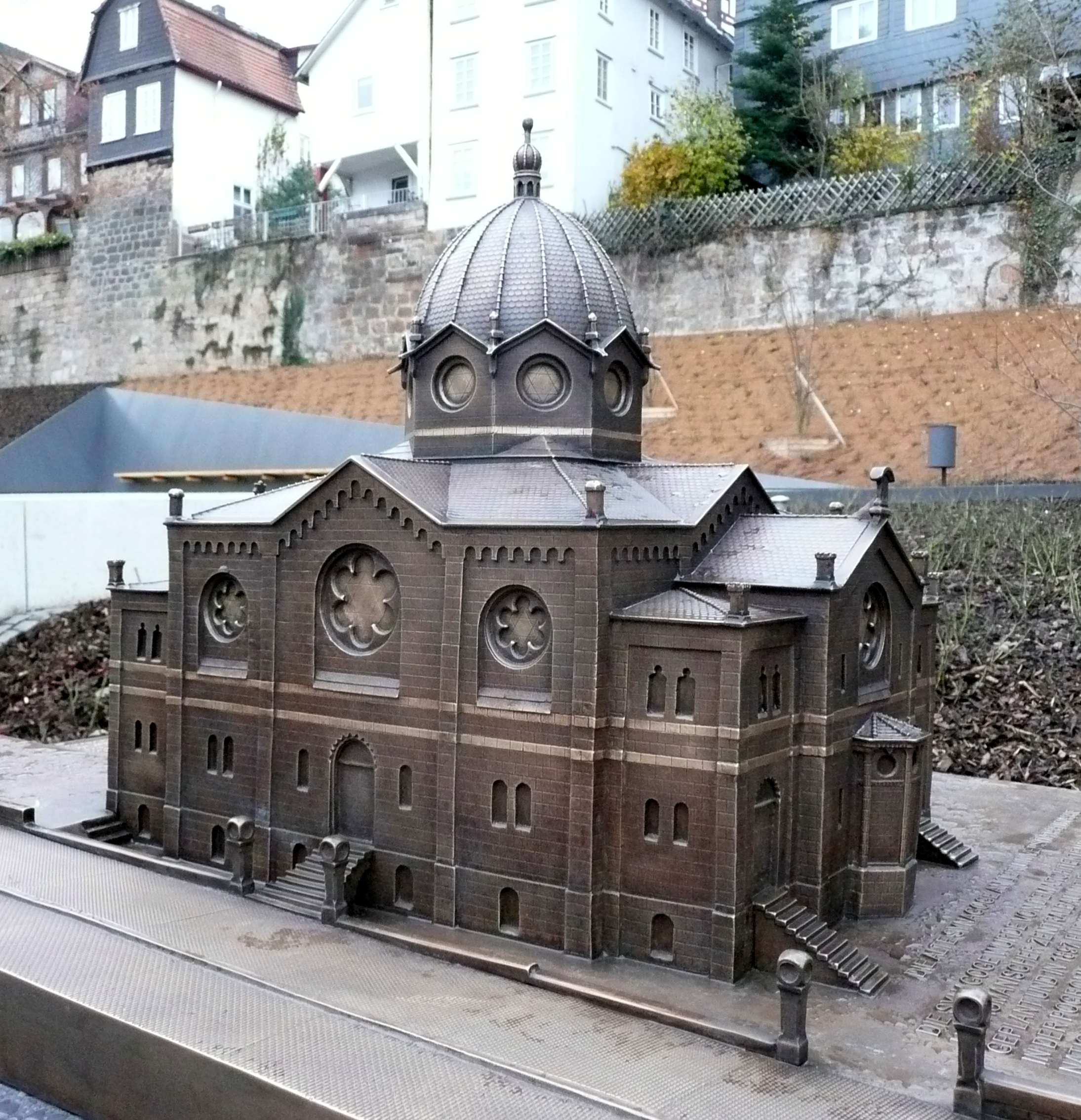 Model of the former Synagogue (1897-1938) in the Universitätsstraße in Marburg, seen from SE.